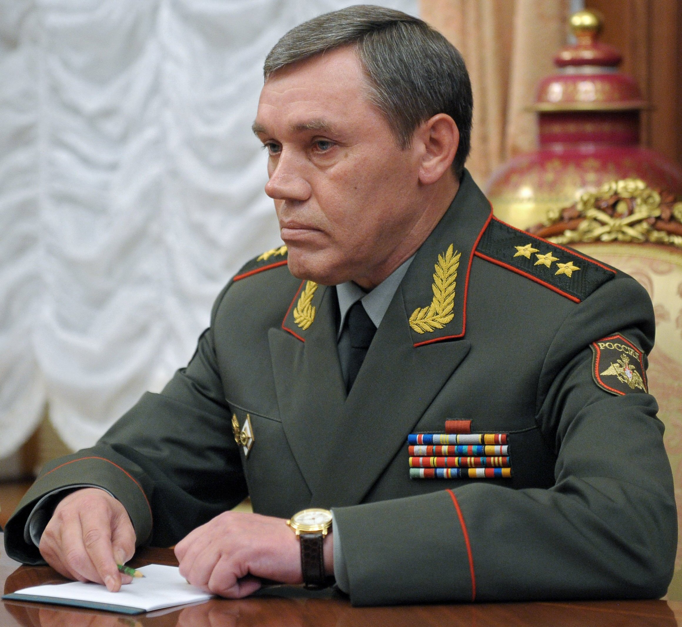 Cropped version of File:Valery Gerasimov (2012-11-09).jpeg, new Russian Chief of Defence Staff Valery Gerasimov, November 2012.